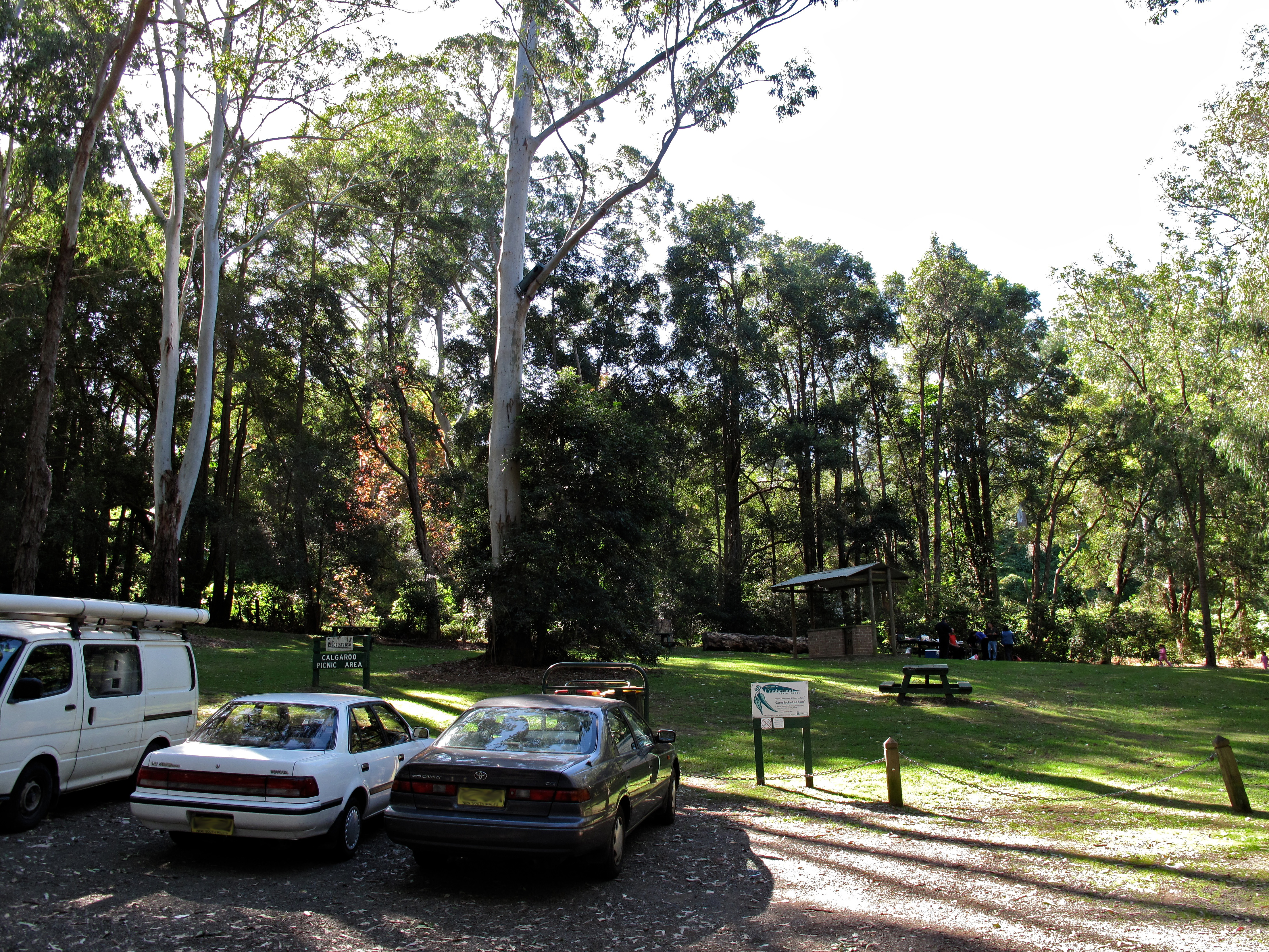 Cumberland State Forest, NSW, Australia